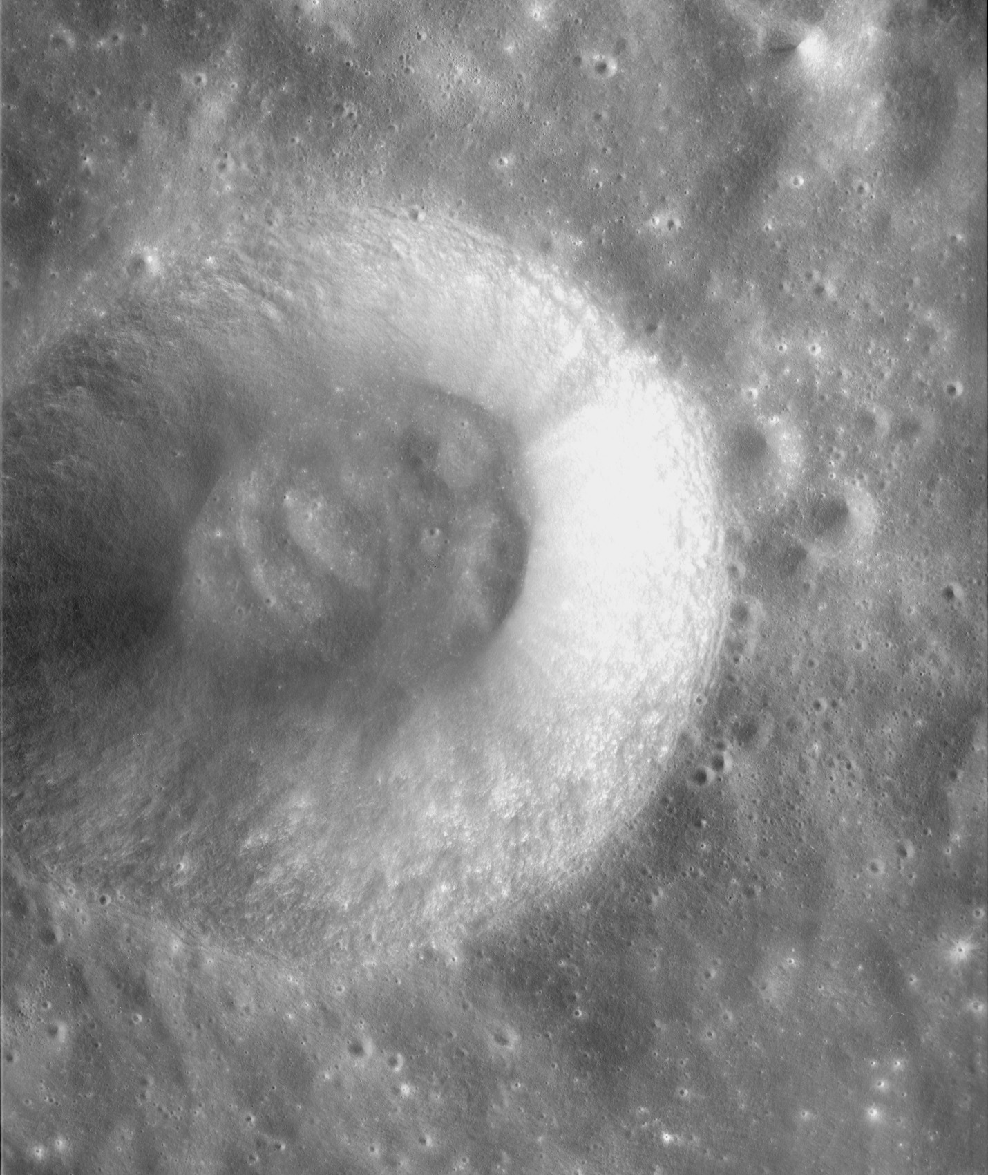 Most of Sherrington, on the far side of the moon.